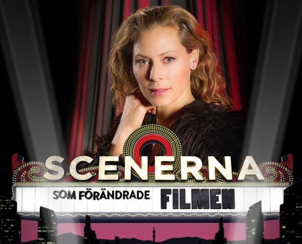 Title card for 2016 documentary tv series about film history.